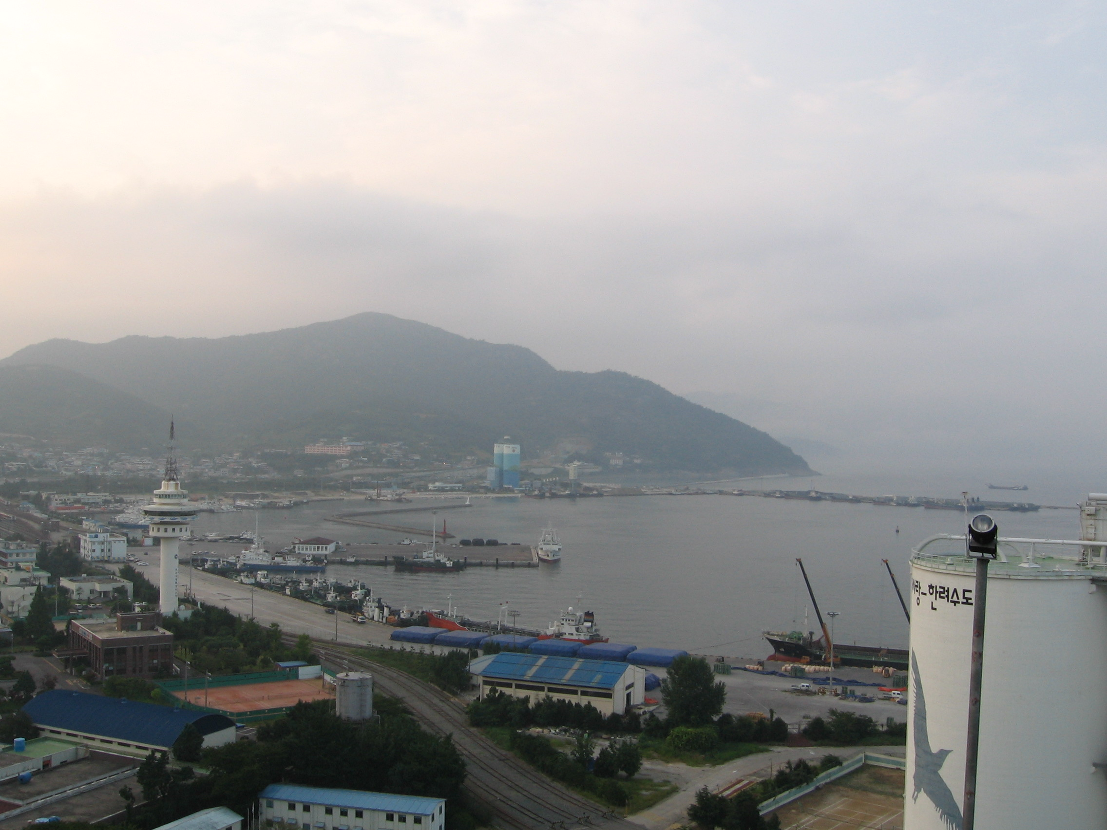 View over a part of the Port of Yeosu, South Korea